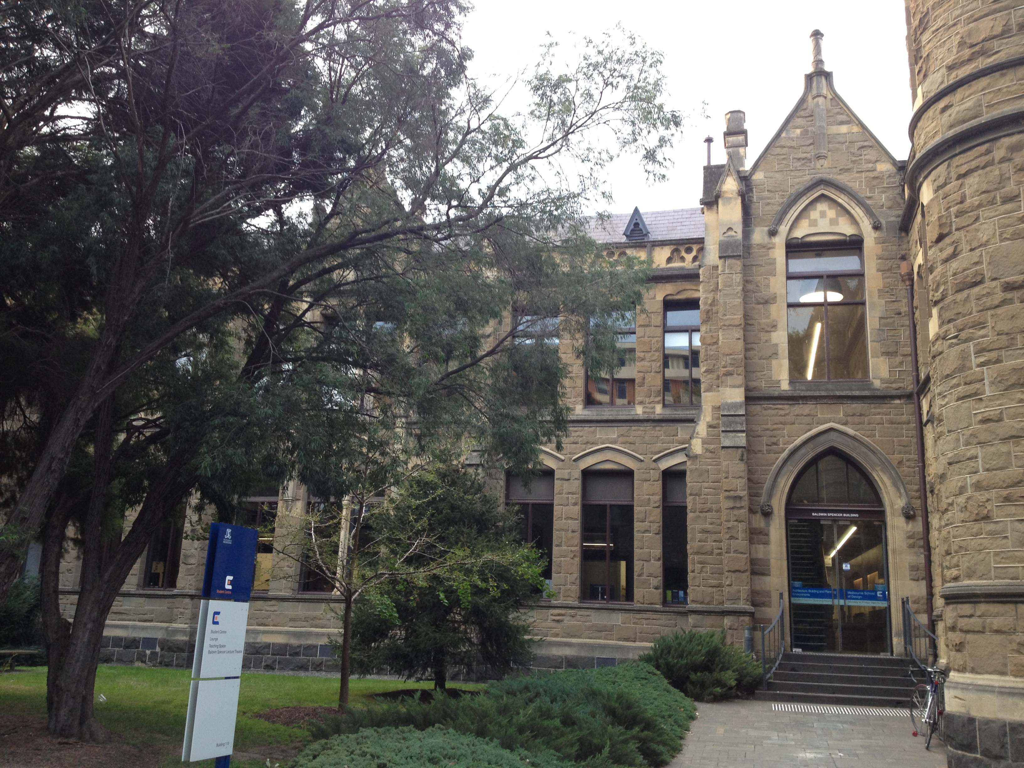 Front View